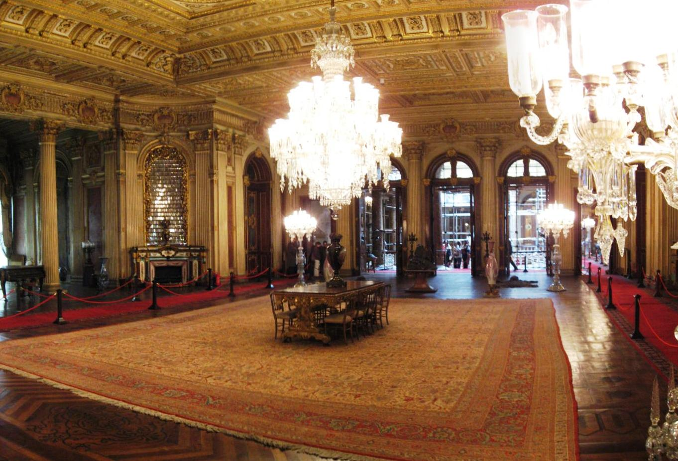 The Ambassadors' Hall (Süfera Salonu) in Dolmabahçe Palace in Istanbul. (#7 on the tour)